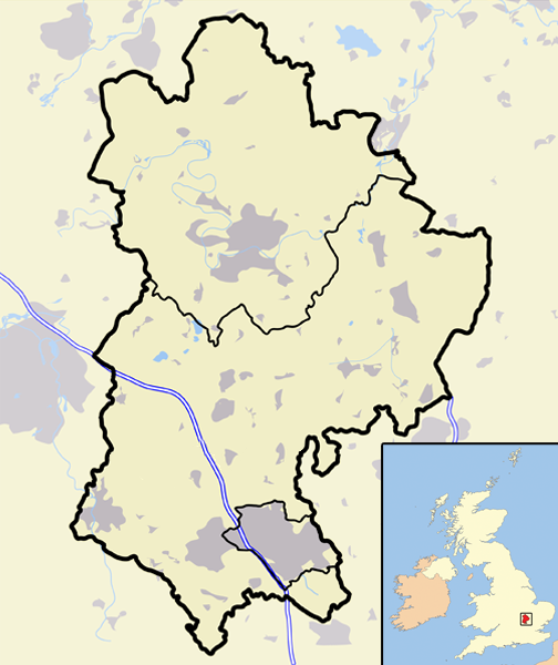 A map of the county of Bedfordshire, England, United Kingdom, showing the post-2009 district boundaries.